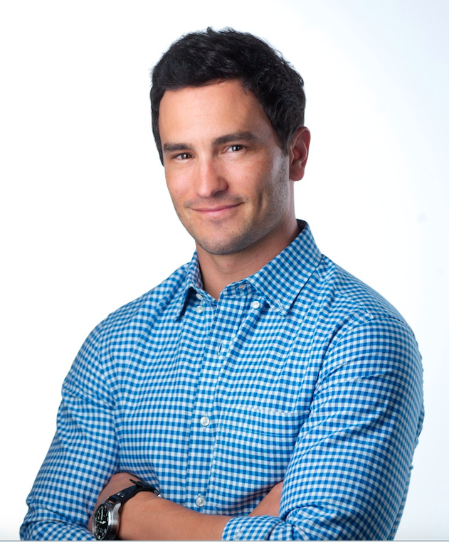 Jeremy Bloom Headshot